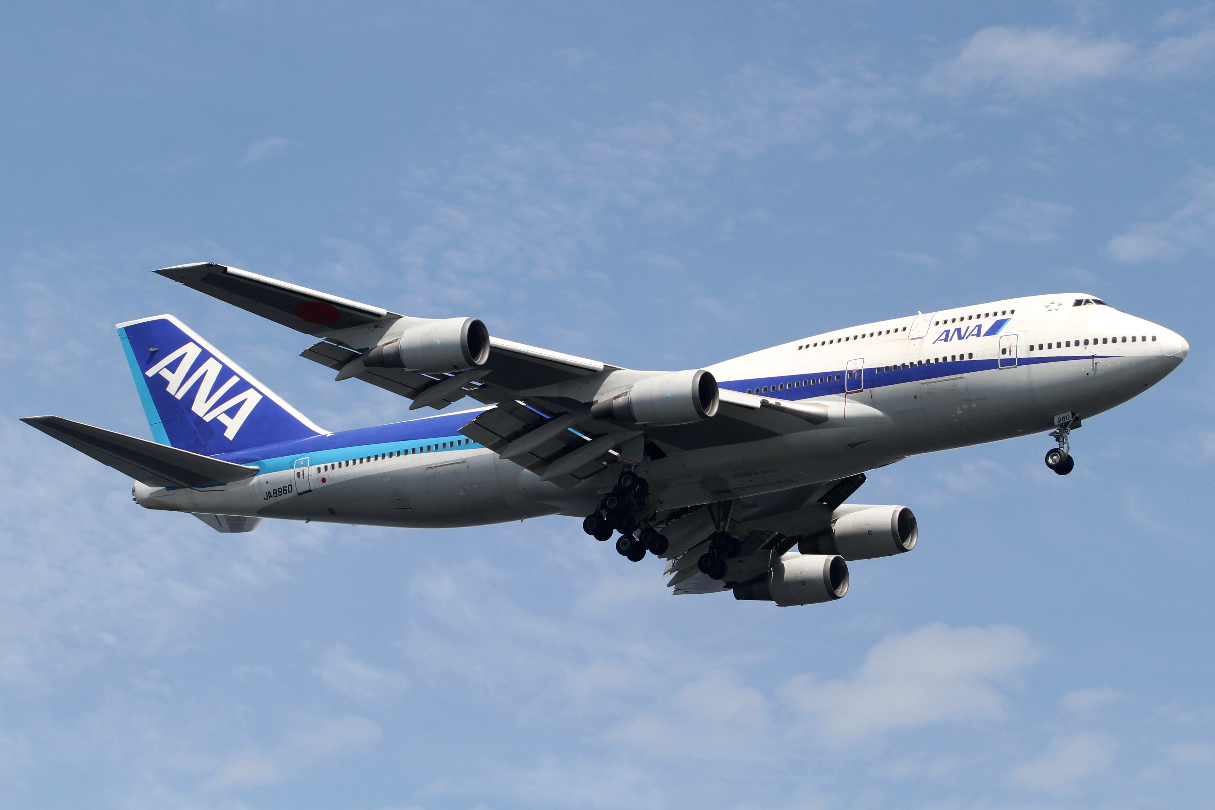 Tokyo International Airport, Boeing 747-481D, c/n:25643, All Nippon Airways